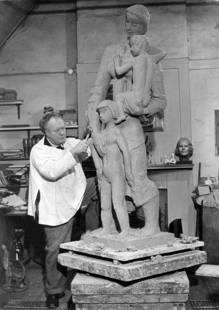 Siegfried Charoux in his workshop